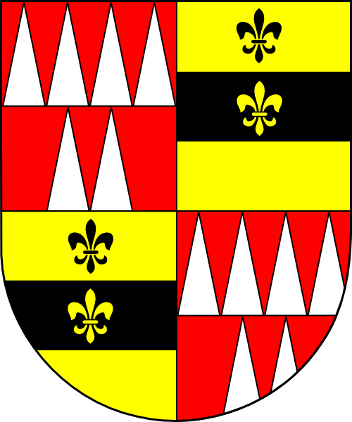 Coat of arms (shield only) of Konrád (Kuneš) ze Zvole, bishop of Olomouc, Czech Republic (1431 - 1434).